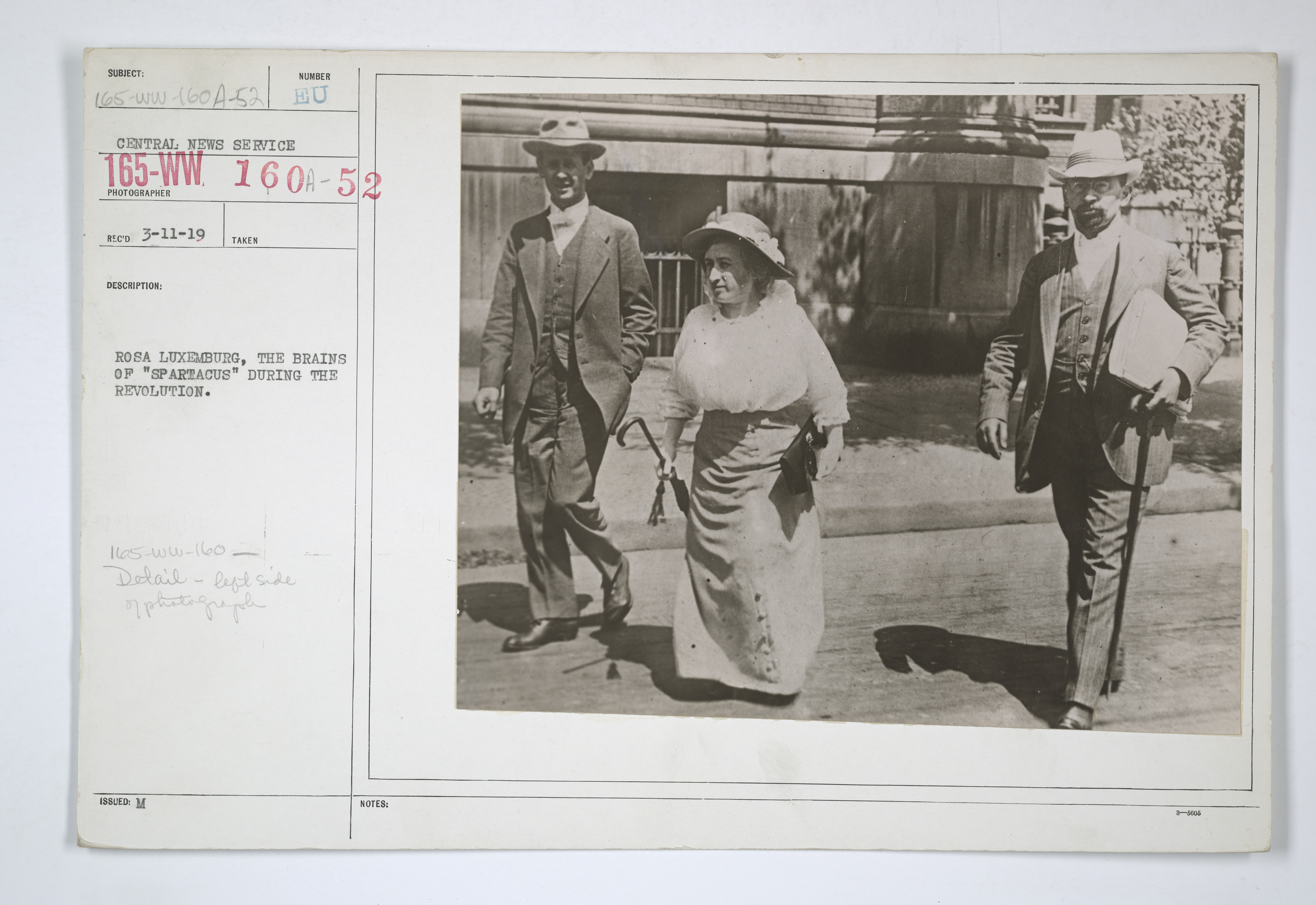 Scope and content: Photographer: Central News Service